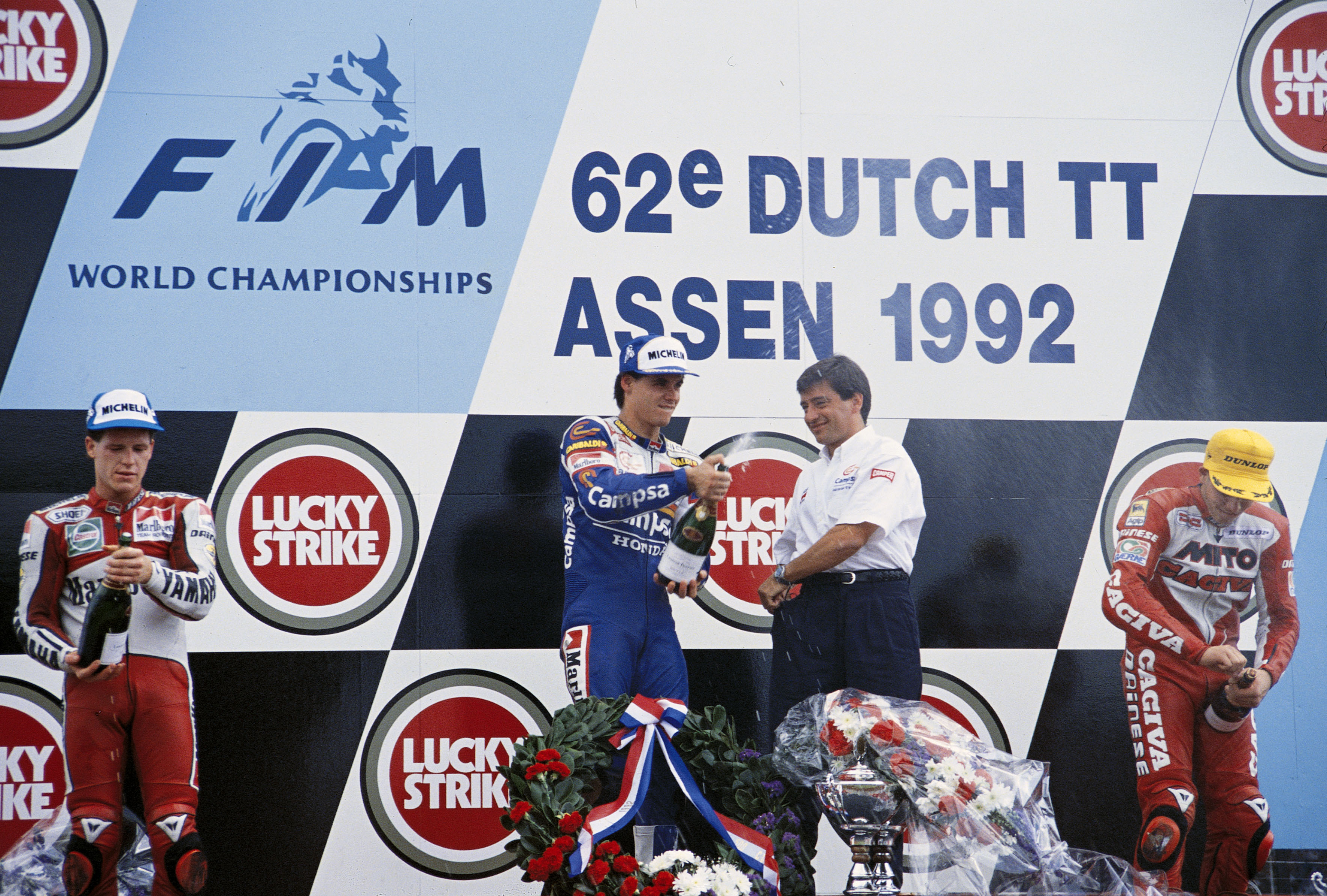 The last hurdle has just been overcome: Alex Crivillé pops the champagne cork from the highest step of the podium at Assen (Holland). It is the first Spanish +victory in 500cc. Beside him stands Sito Pons.